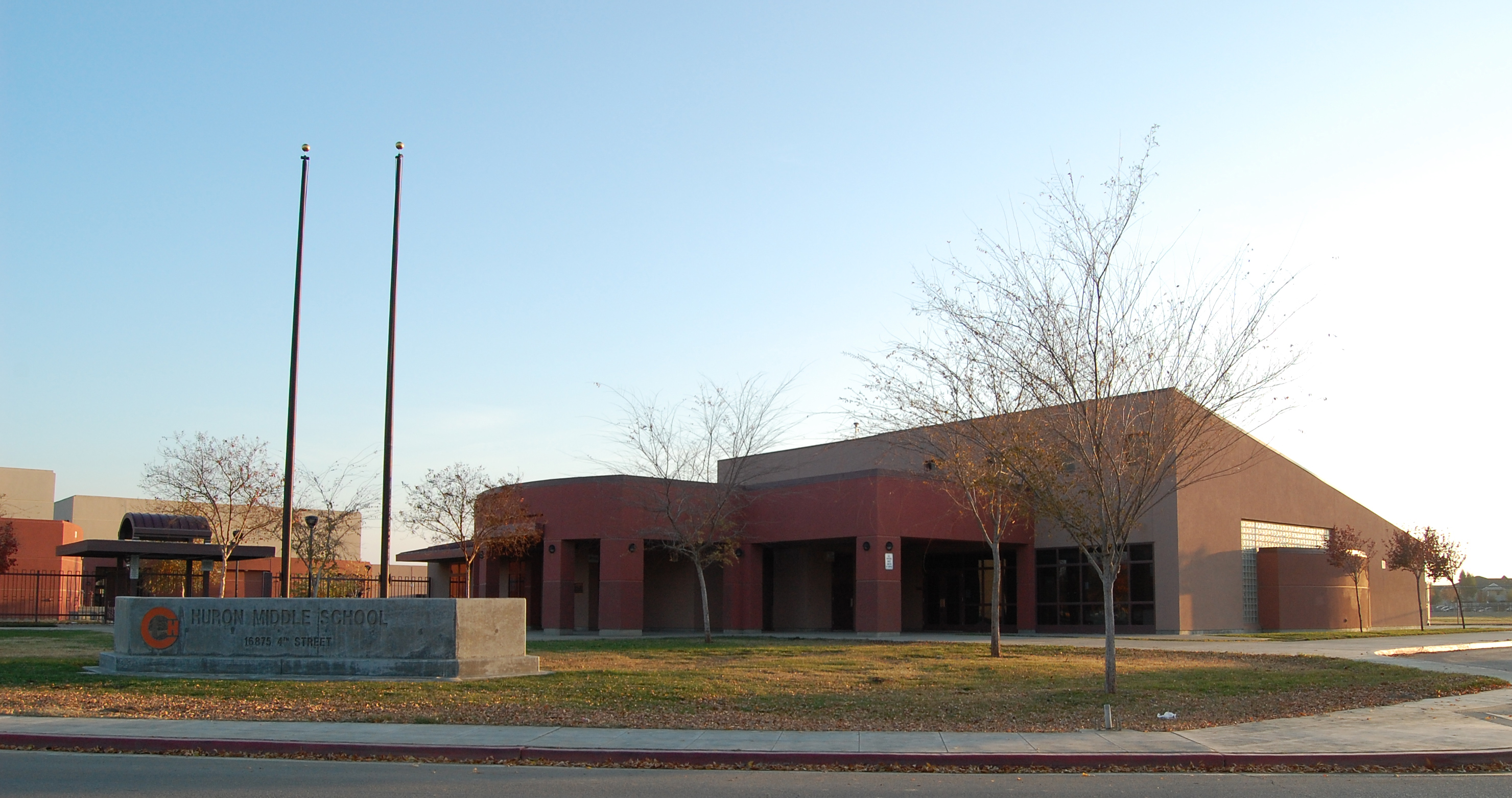 Huron Middle School. Do these coordinates look right for NAD83? If not, please update them. About this image: Was captured using film or digital camera equipment. May lack artistic merit but documents the existence of the subject(s). May have had elements including colors, composition, gamma, exposure, or size adjusted using camera-, lens-, scanner-settings or by applying image editing software. May have had aberrations, flare, or reflections removed in order that the subject of the image is more clearly visible. Is intended to be representative of the view of the subject that would be perceived by a human eye.